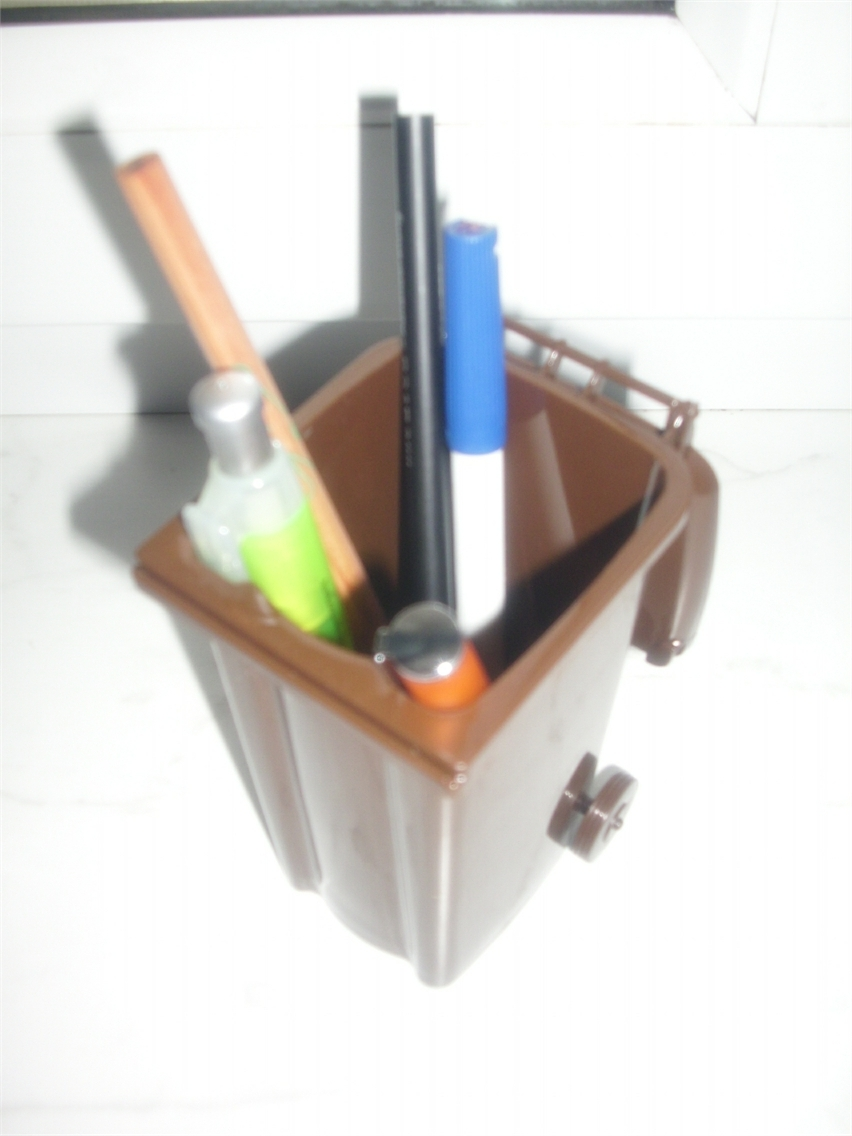 Mini Bins as pencil houlder